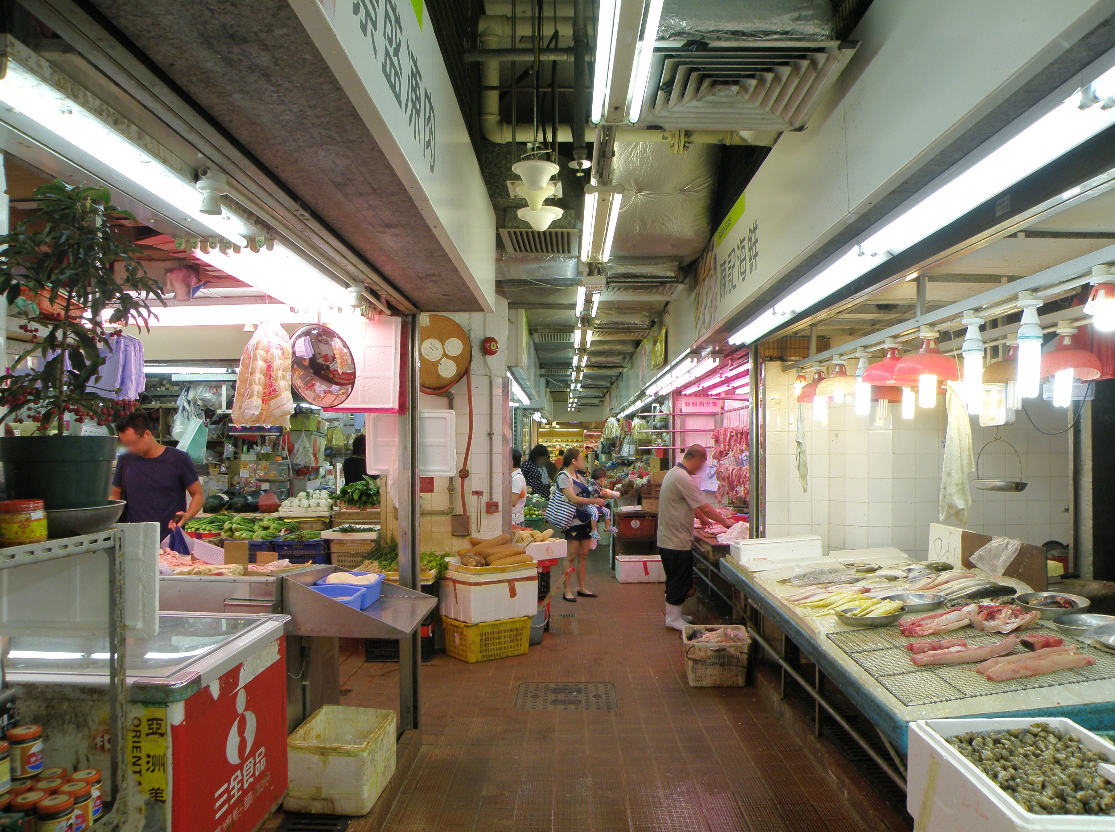 Wah Sum Market in Fanling, Hong Kong.